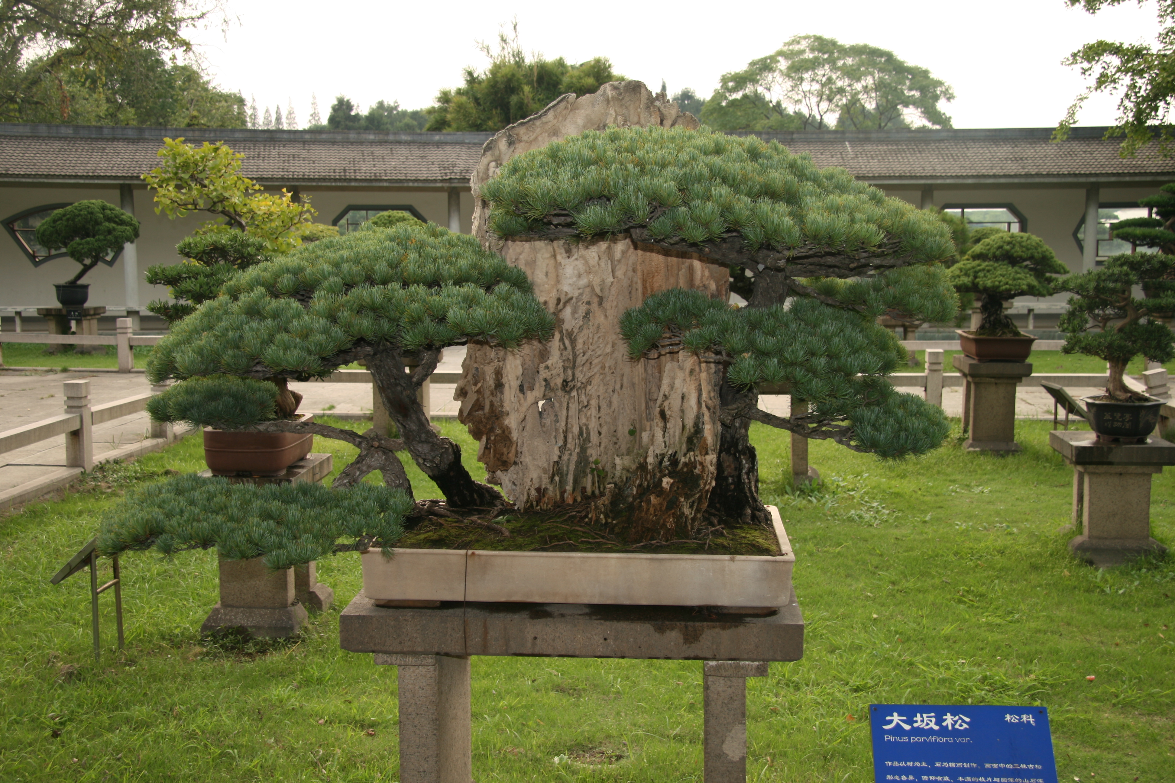 Rock + Pinus parviflora as penjing, penjing garden, Shanghai Botanical Garden